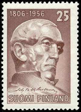 Postage stamp depicting Finnish statesman J. V. Snellman